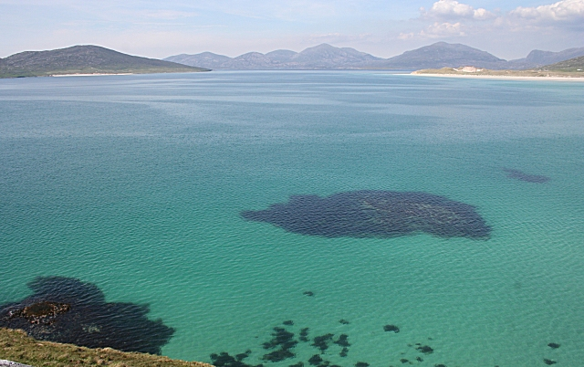 Sound of Taransay The foreground and underwater rocks are in square. The hill on the left is Beinn Rà on the island of Taransay, and the beach to the right is Losgaintir (Luskentyre). In the background are the hills of North Harris.